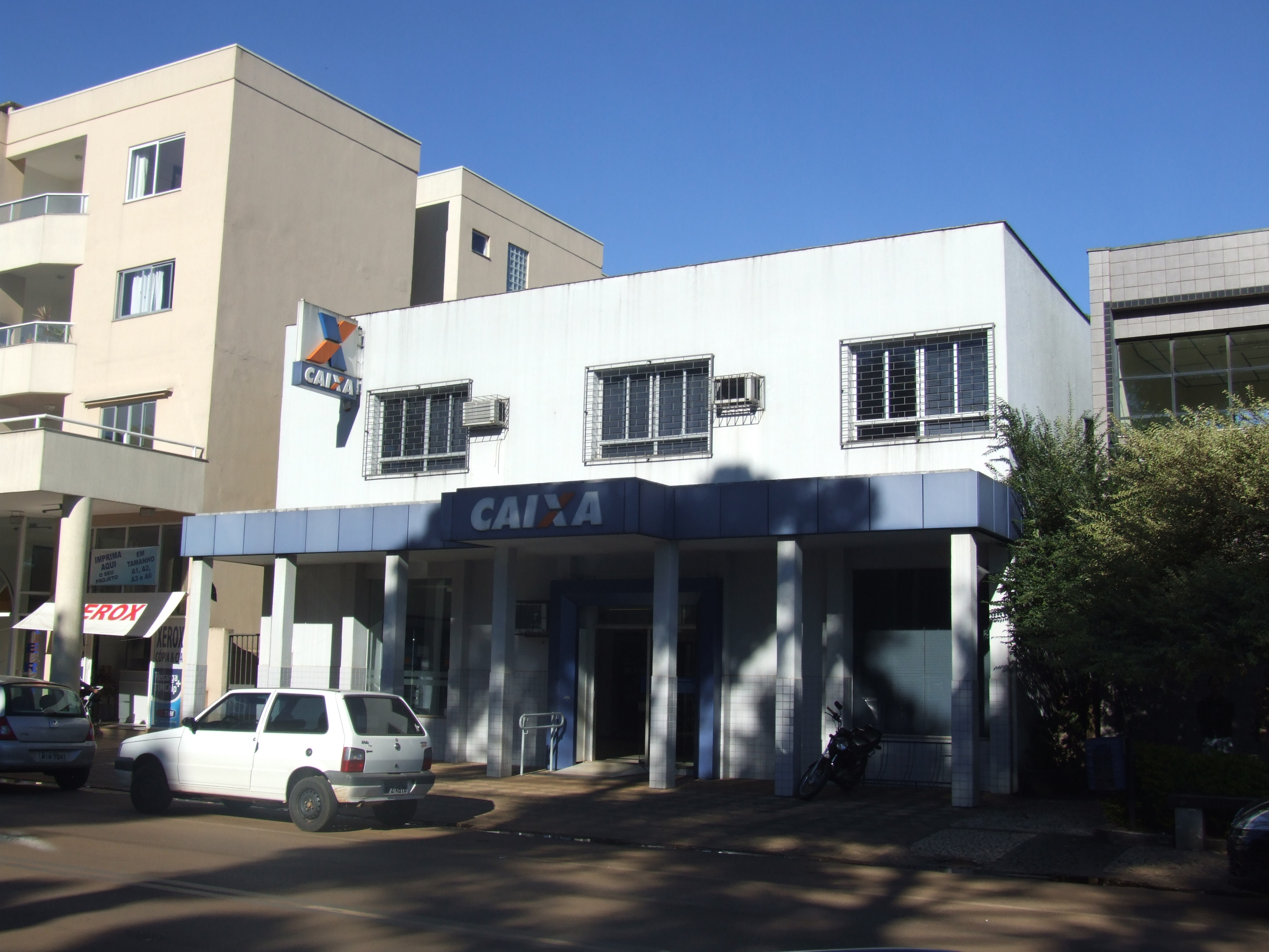 Agency's Federal Savings Bank in Campos Novos, Santa Catarina, Brazil